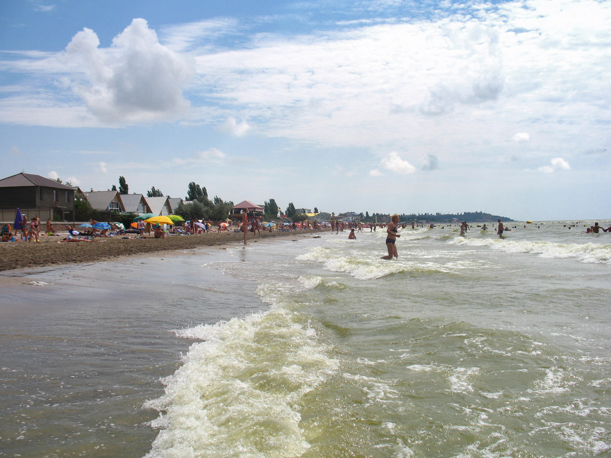 Kobleve Resort near the village of Kobleve, Mykolaiv Oblast, Ukraine